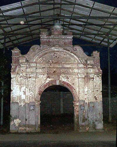 From The owner of the website allows use of any image under the Wikipedia Creative Commons Attribution 2.5 licence as long as a link is made back to the original source